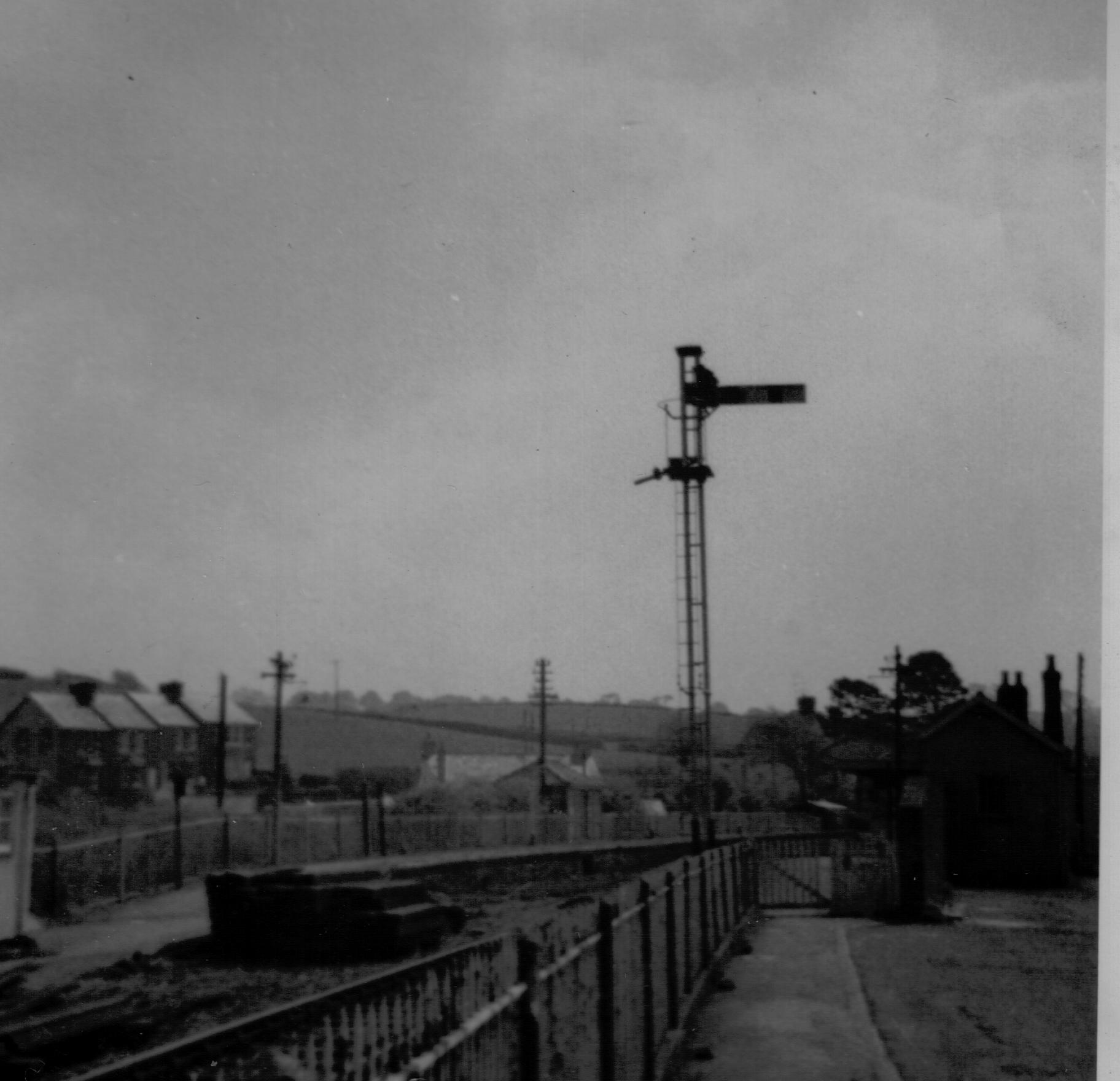 Instow railway station in 1969